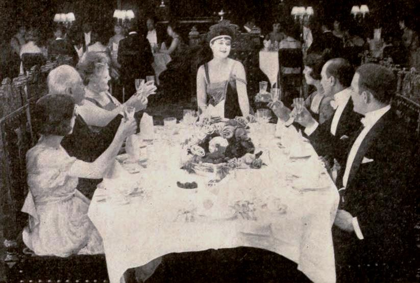 Still from the American drama film Buchanan's Wife (1918) with Virginia Pearson, on page 38 of the December 7, 1918 Exhibitors Herald.